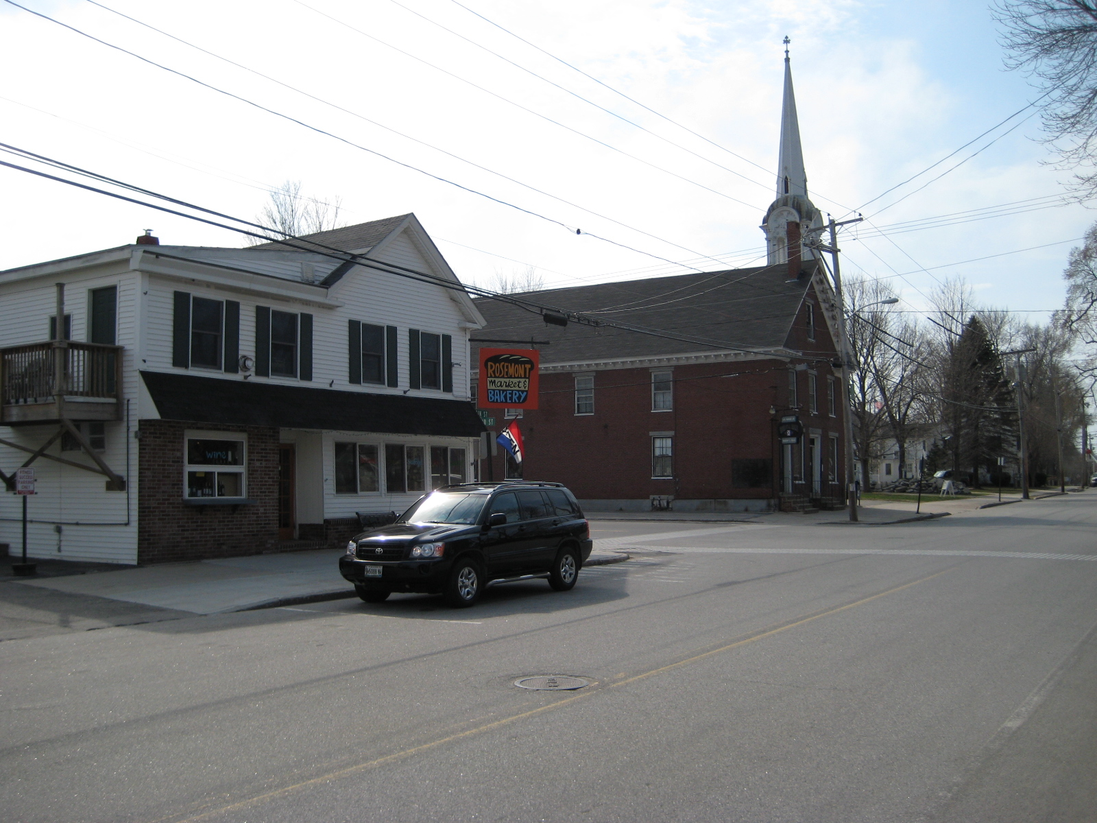 Junction of Main and Portland Streets, Yarmouth, Maine